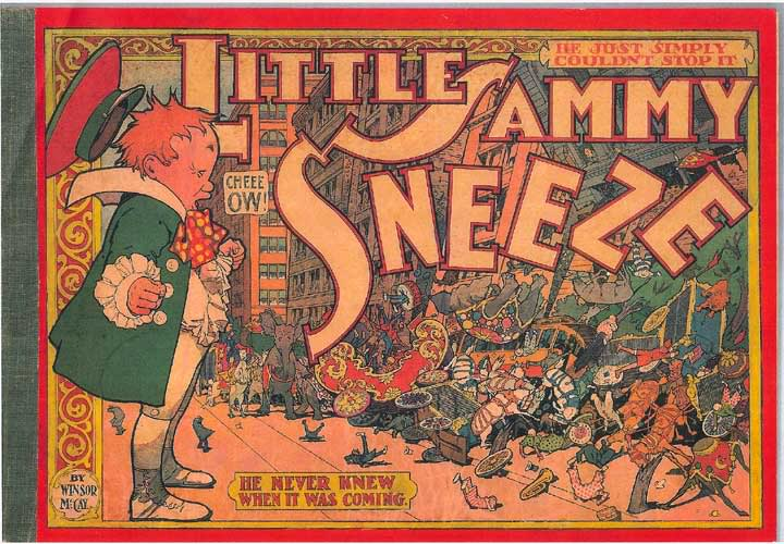 Book cover to the 72-page Little Sammy Sneeze book by American cartoonist Winsor McCay